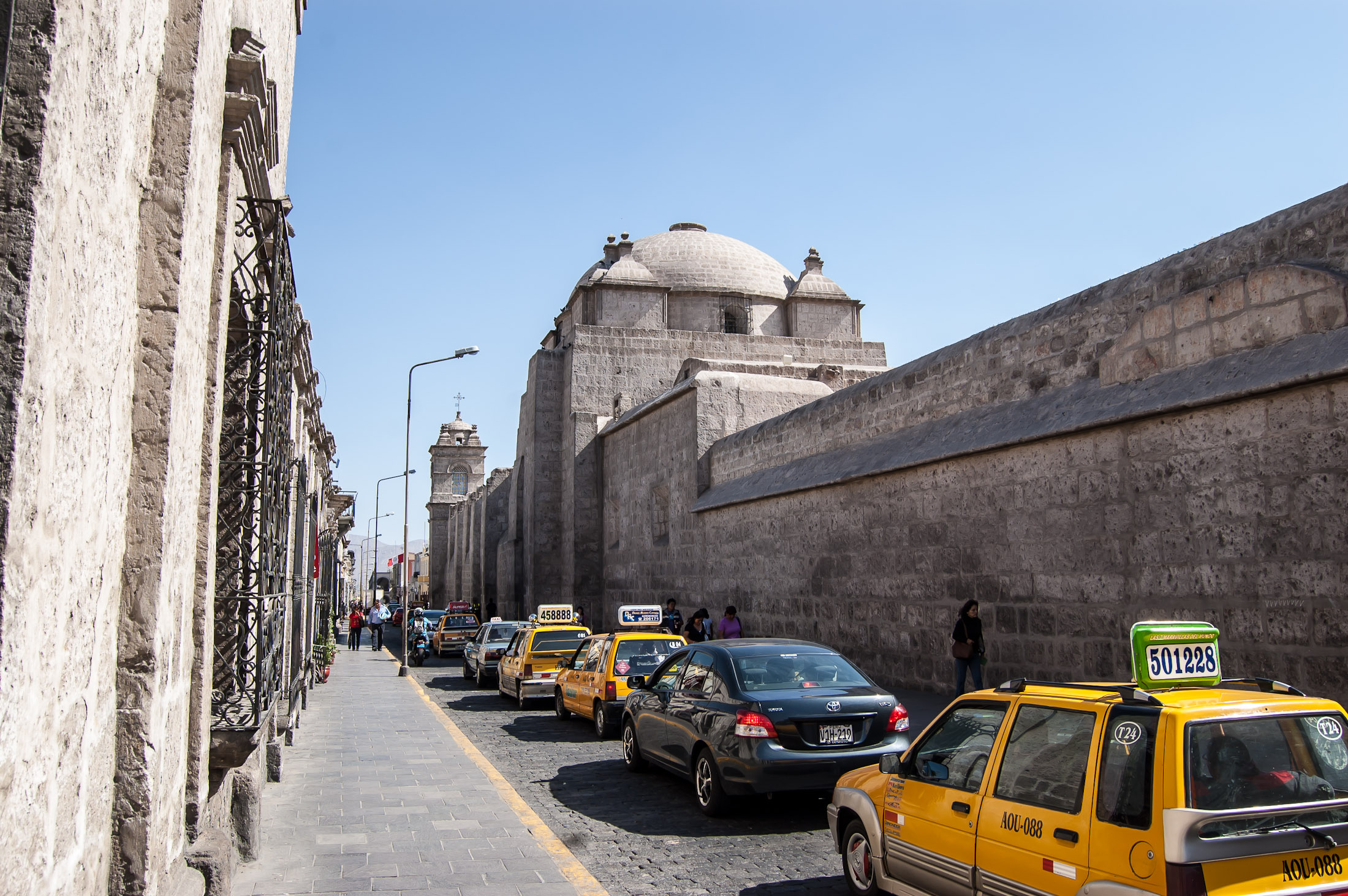 You can use this photo (including for commercial purposes) while you attribute the author: Internet store of souvenirs from different countries of the World